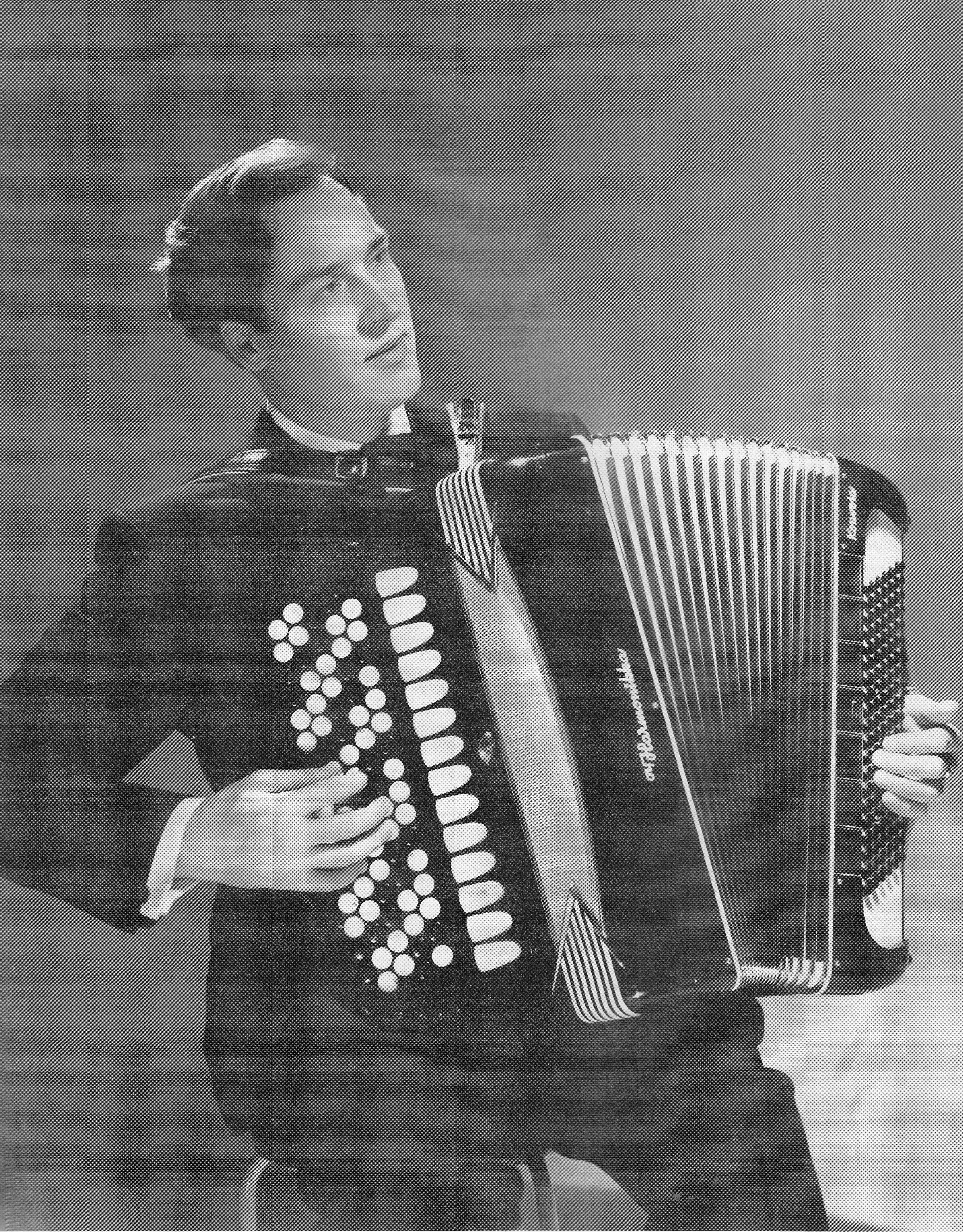 Lässe Pihlajamaa finnish player